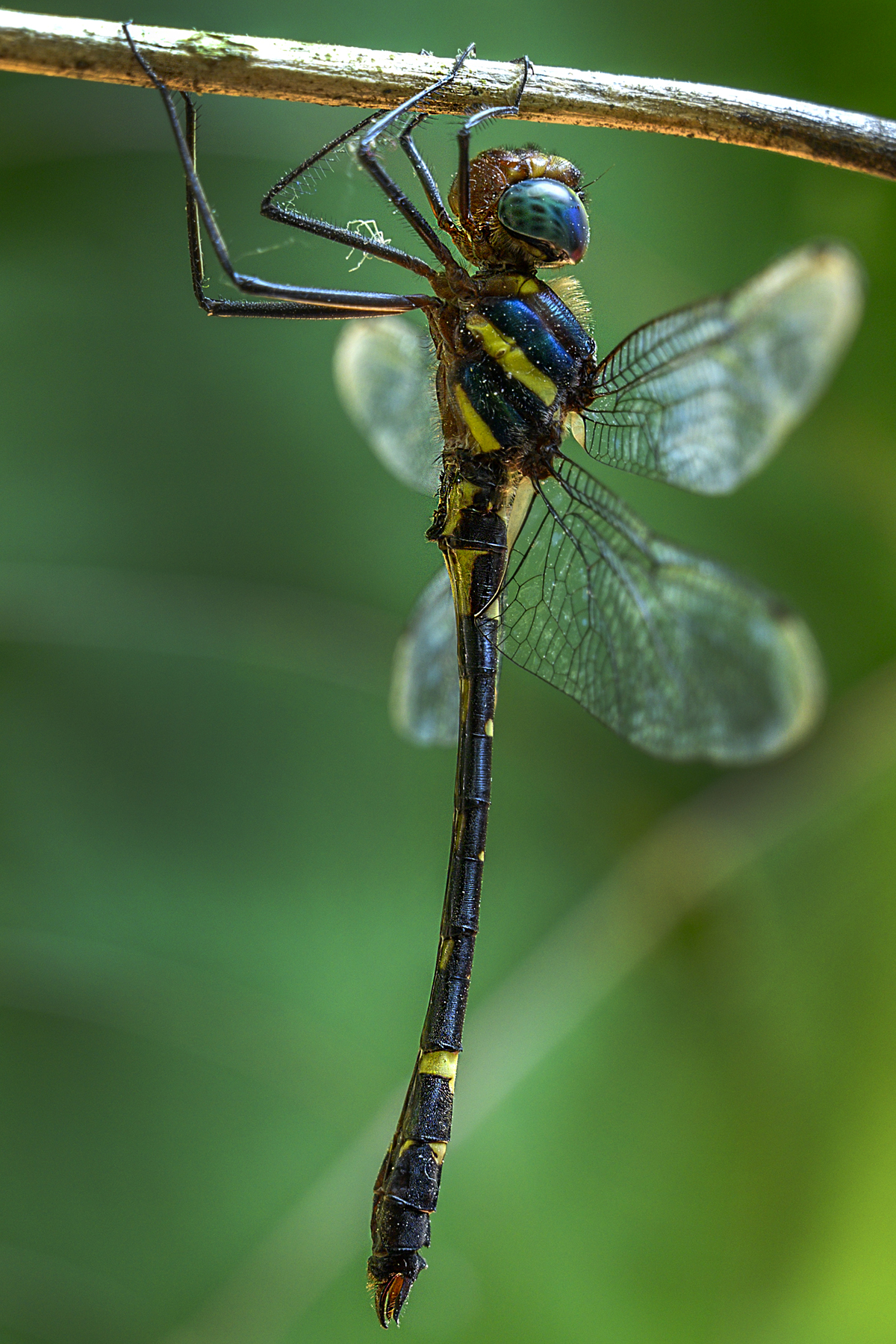 Macromia irata male